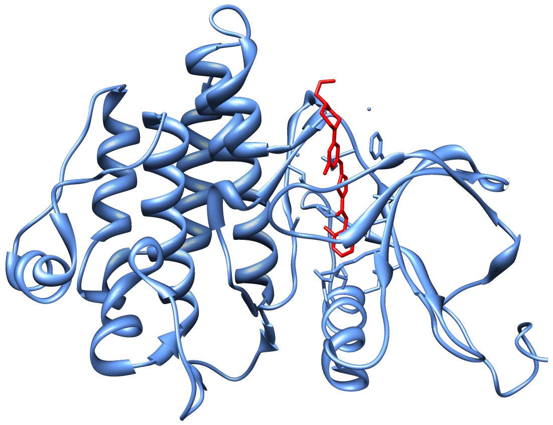 Structure of Abl1 Kinase Domain in complex with Dasatinib based on PDB 2GQG. Molecular graphics images were produced using the UCSF Chimera package from the Resource for Biocomputing, Visualization, and Informatics at the University of California, San Francisco (supported by NIH P41 RR001081).